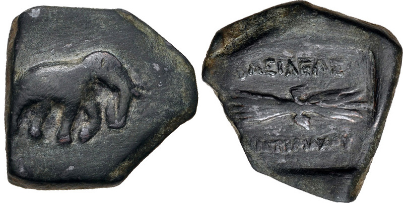 BAKTRIA, Greco-Baktrian Kingdom. Antimachos I Theos. Circa 180-170 BC. Æ (20mm, 7.71 g, 12h). Elephant advancing right / Thunderbolt within incuse square. Bopearachchi 7; SNG ANS 295 var. (cursive omega in legend)